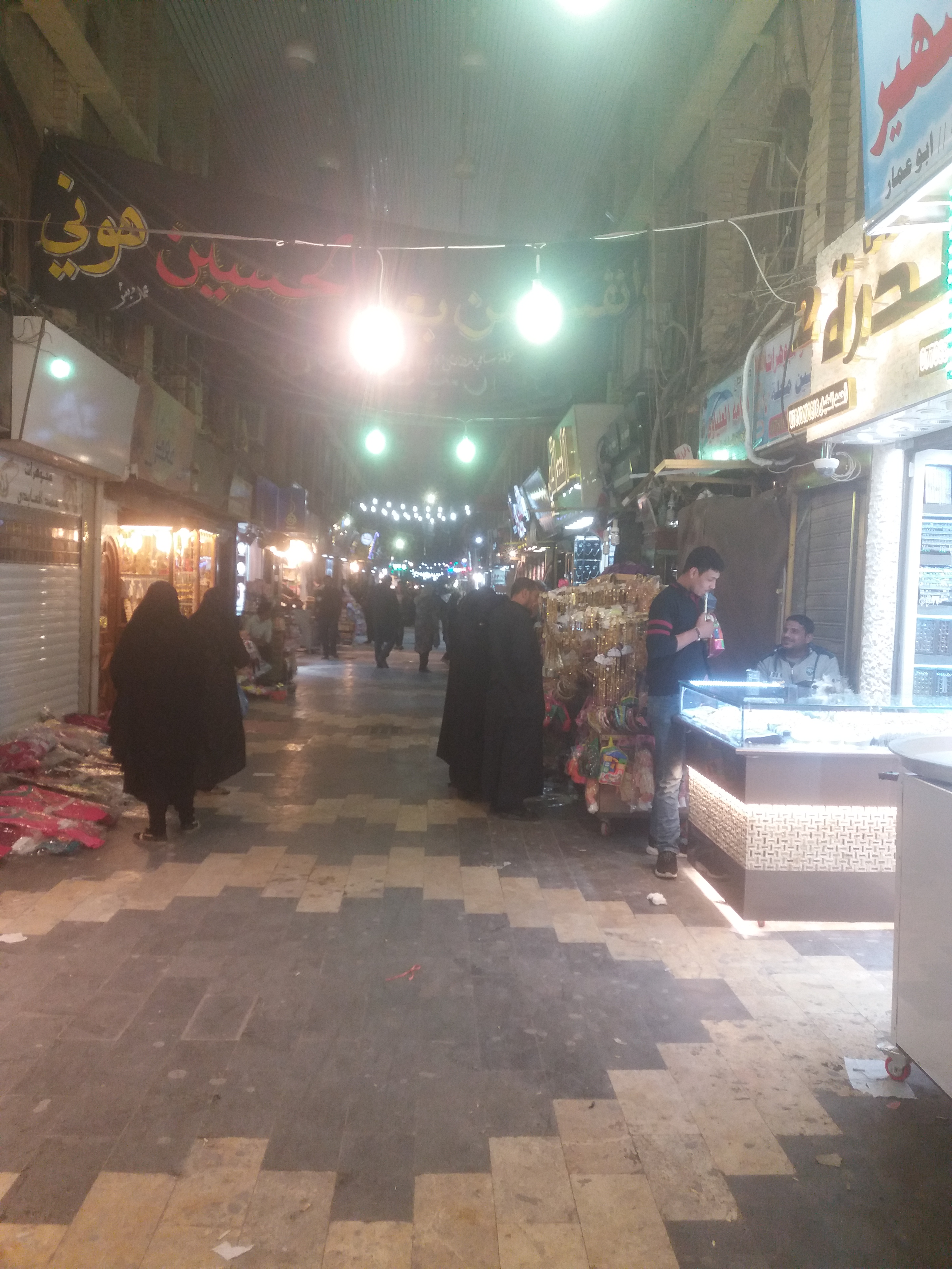 Najaf, 2017